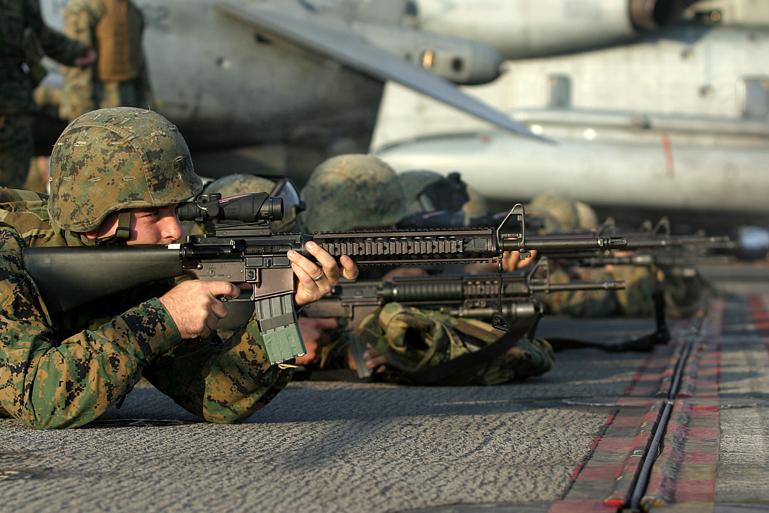 ABOARD USS ESSEX – PFC David Lindsay, a rifleman with Company F of the Battalion Landing Team, 2nd Battalion, 5th Marine Regiment, 31st Marine Expeditionary Unit, and a Fort Worth, Texas native, fires his M16 A4 service rifle to battle site zero his new advanced combat optical gun sight on the elevator platform here May 10. About 190 Marines with Co. F, also known as the Blackhearts, conducted the shoot to adjust the new gun sights the company mounted on all of its rifles. The MEU and the Sasebo Forward Deployed Amphibious Ready Group are sailing toward the Kingdom of Thailand to participate in Exercise Cobra Gold 2006. Photo ID: 20065147039 Submitting Unit: 31st MEU Photo Date:05/10/2006